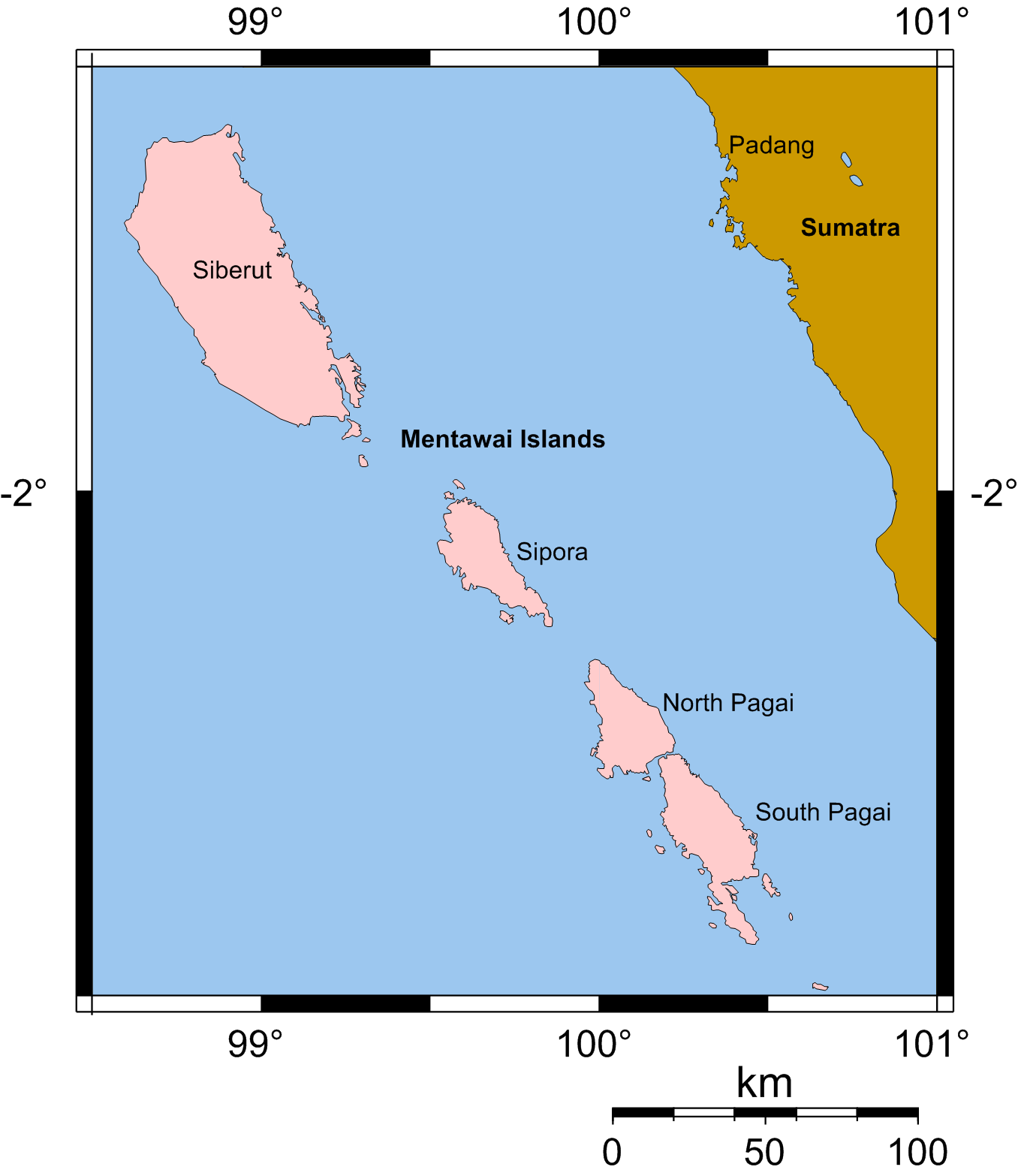 Map of the Mentawai Islands drawn by MichaelJLowe, based upon public domain map from [1].